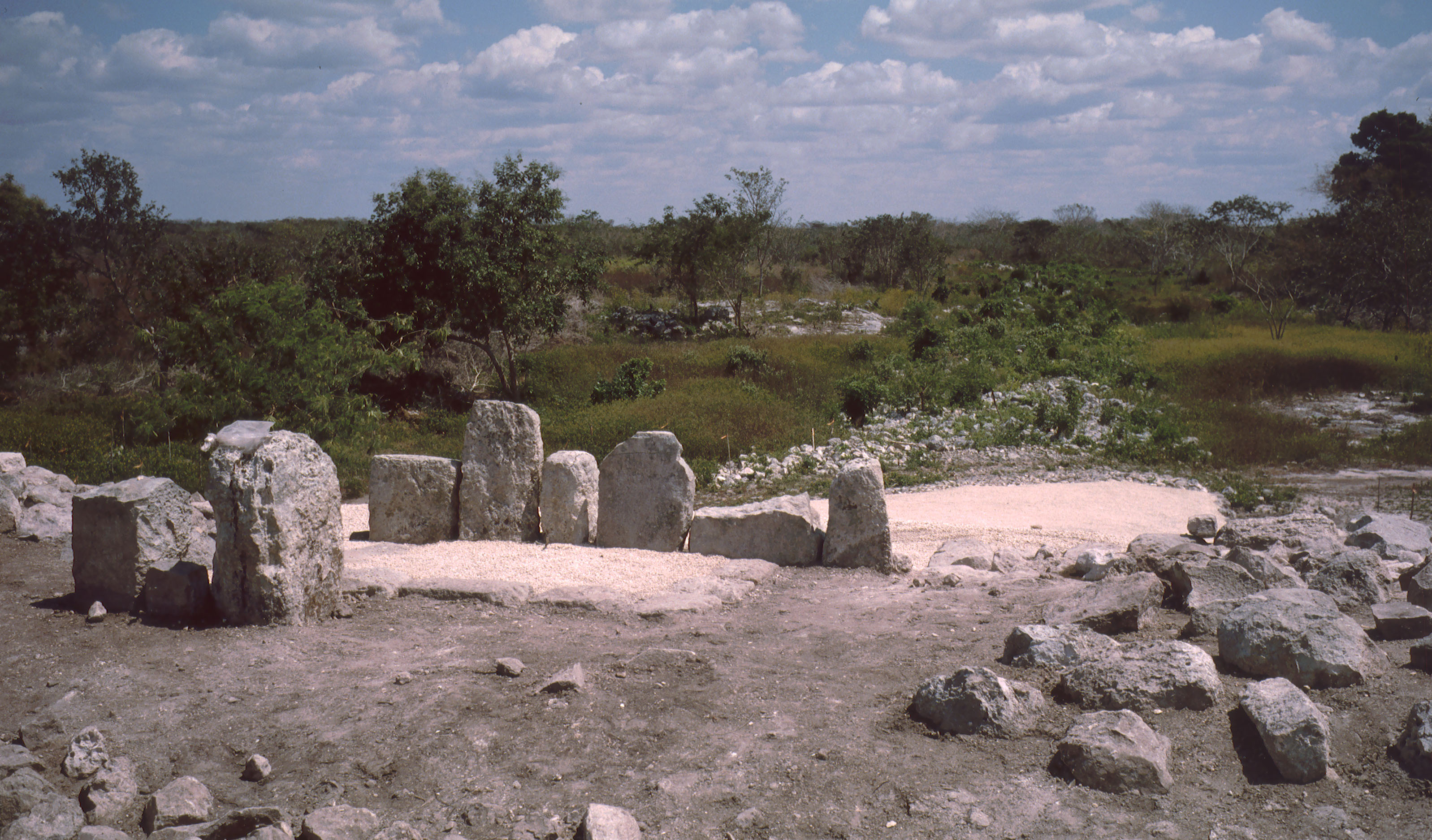 Yaxuná, Yucatan, Mexico: sacbe to Cobá.